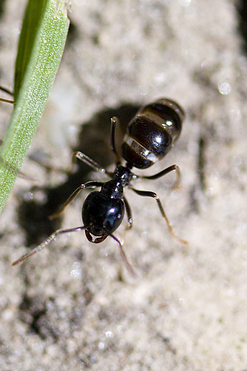 Lasius fulignosus worker